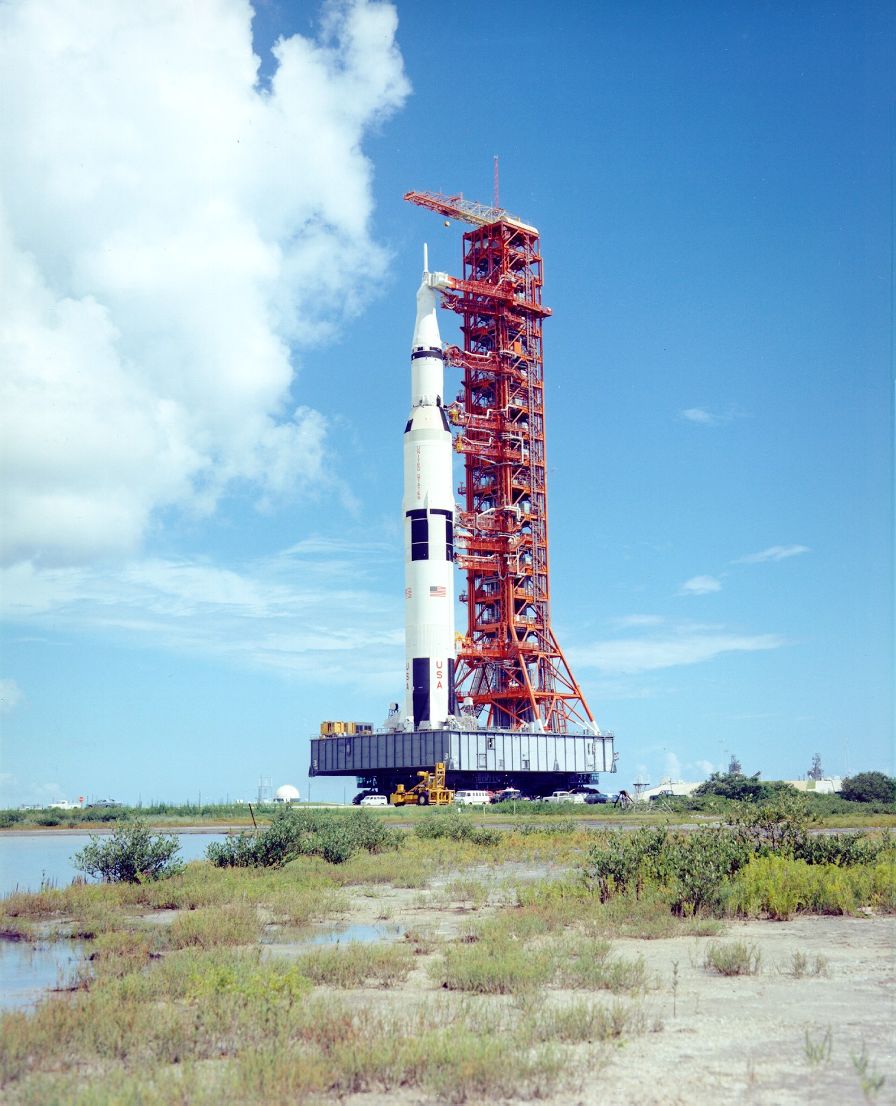 Авар: A photo of Saturn V on the launch pad at Kennedy Space Centre in Cape Canaveral, Florida.